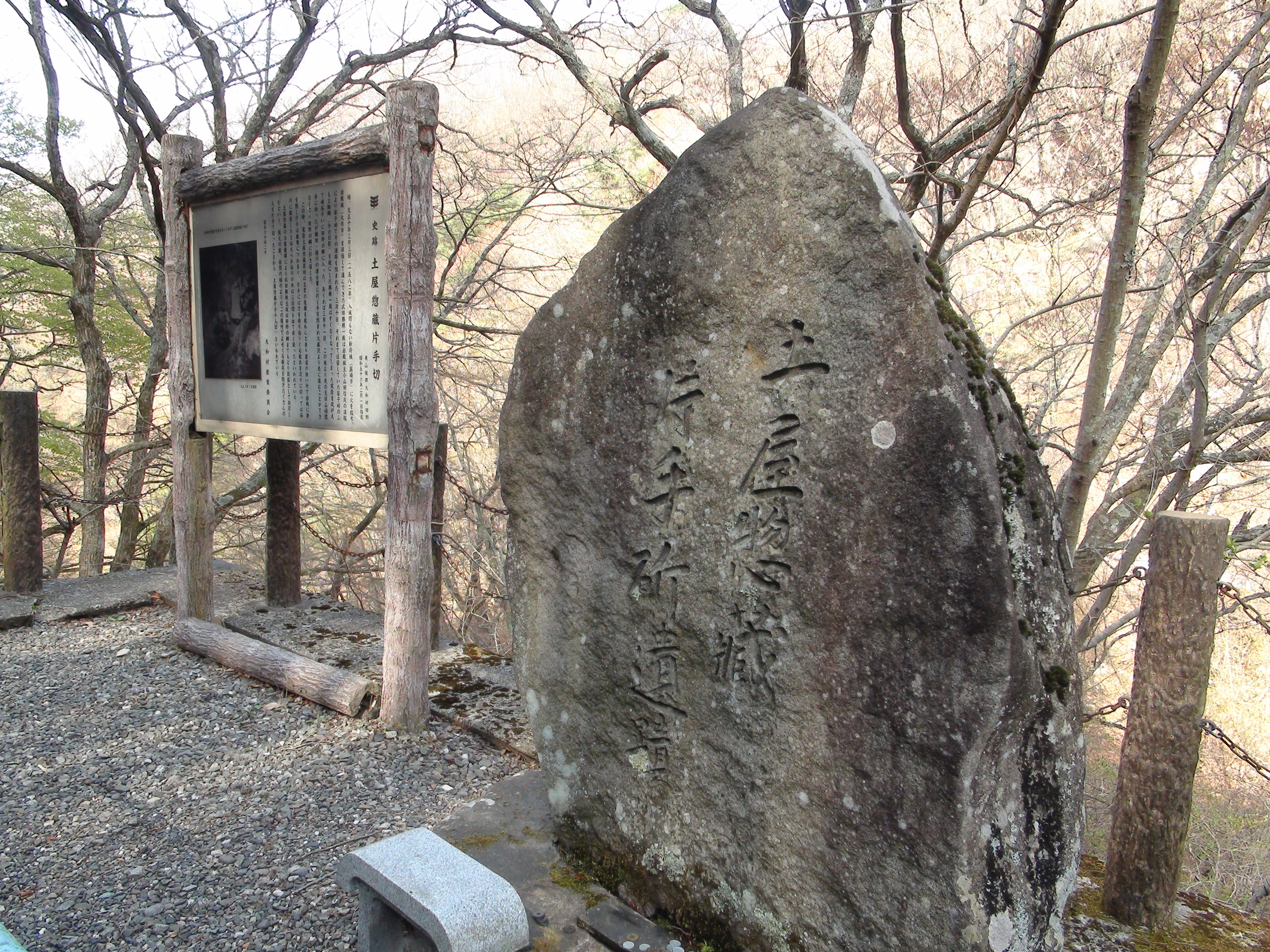 Katategiri-monument Tsuchiya Masatsune.his followed Takeda Katsuyori until his death at Battle of Temmokuzan in 1582